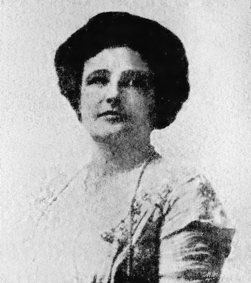 Florence Terry Shaw Brundage Griswald, founder of the Pan American Round Tables